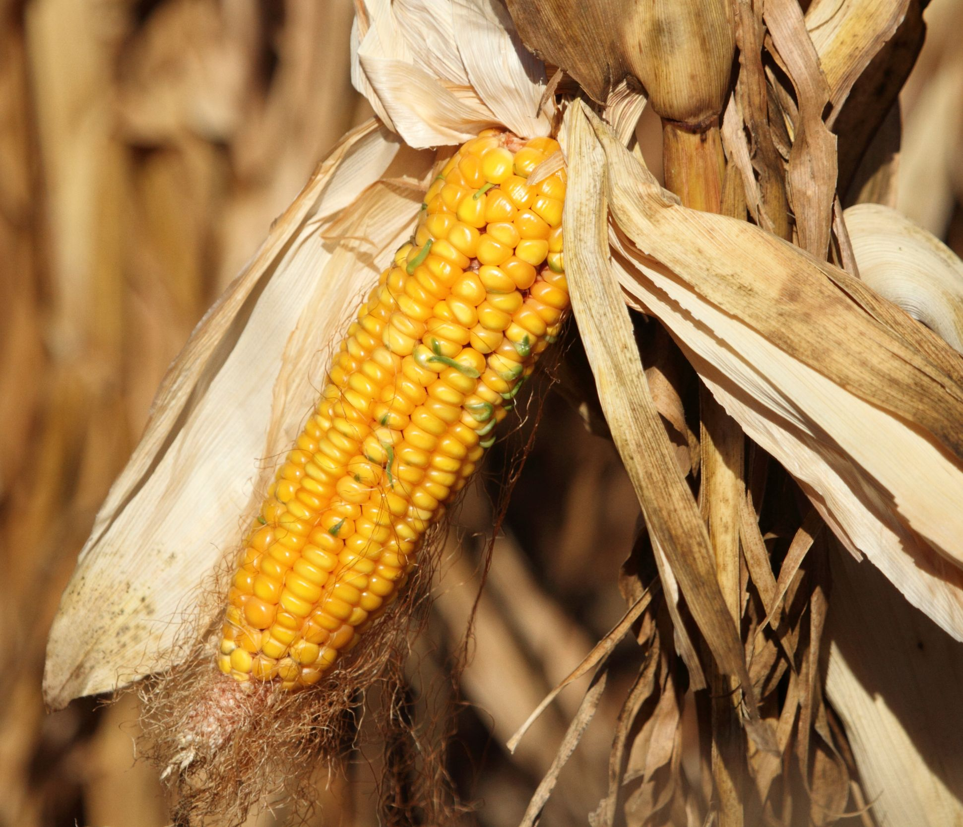 Premature germination of maize. Soil acidity reduces molybdenum (Mo) availability - in some soils this results in poor Mo nutrition. Molybdenum is essential for nitrate reductase activity, and Mo deficiency can result in a build-up of nitrate in maize grain. This, in turn, can predispose the grain to premature germination. This photograph illustrates the germination of maize grain (still on the cob on standing maize) that is not yet sufficiently dry to harvest. This was from a zero-lime plot in a liming trial. The soil pH (in 1 M KCl) was 3.75 and the acid saturation was 74%. Soil pH (water) was not measured, but was probably between 4.2 and 4.4. There was no evidence of premature germination on limed plots. Reference: Farwell, A.J., Farina, M.P.W. and Channon, P., 1991. Soil acidity effects on premature germination in immature maize grain. In Plant-Soil Interactions at Low pH (pp. 355-361). Springer Netherlands.